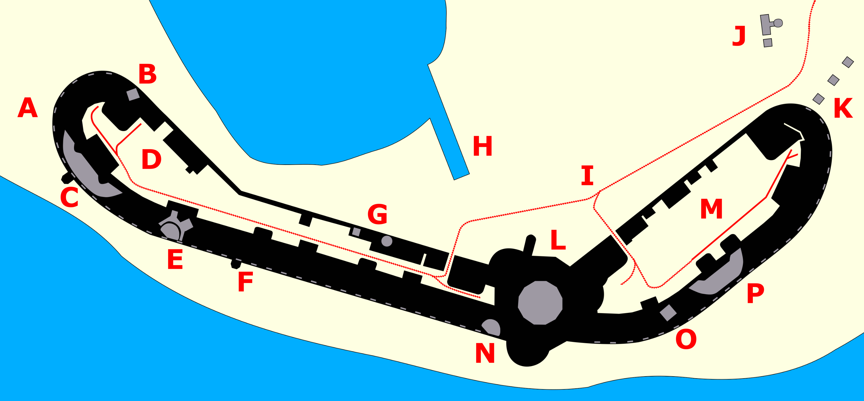 Hurst Castle plan modern; after File:Hurst Castle, near Milford on Sea, Hampshire, England-2Oct2010 trimmmed.jpg, and Coad 1985